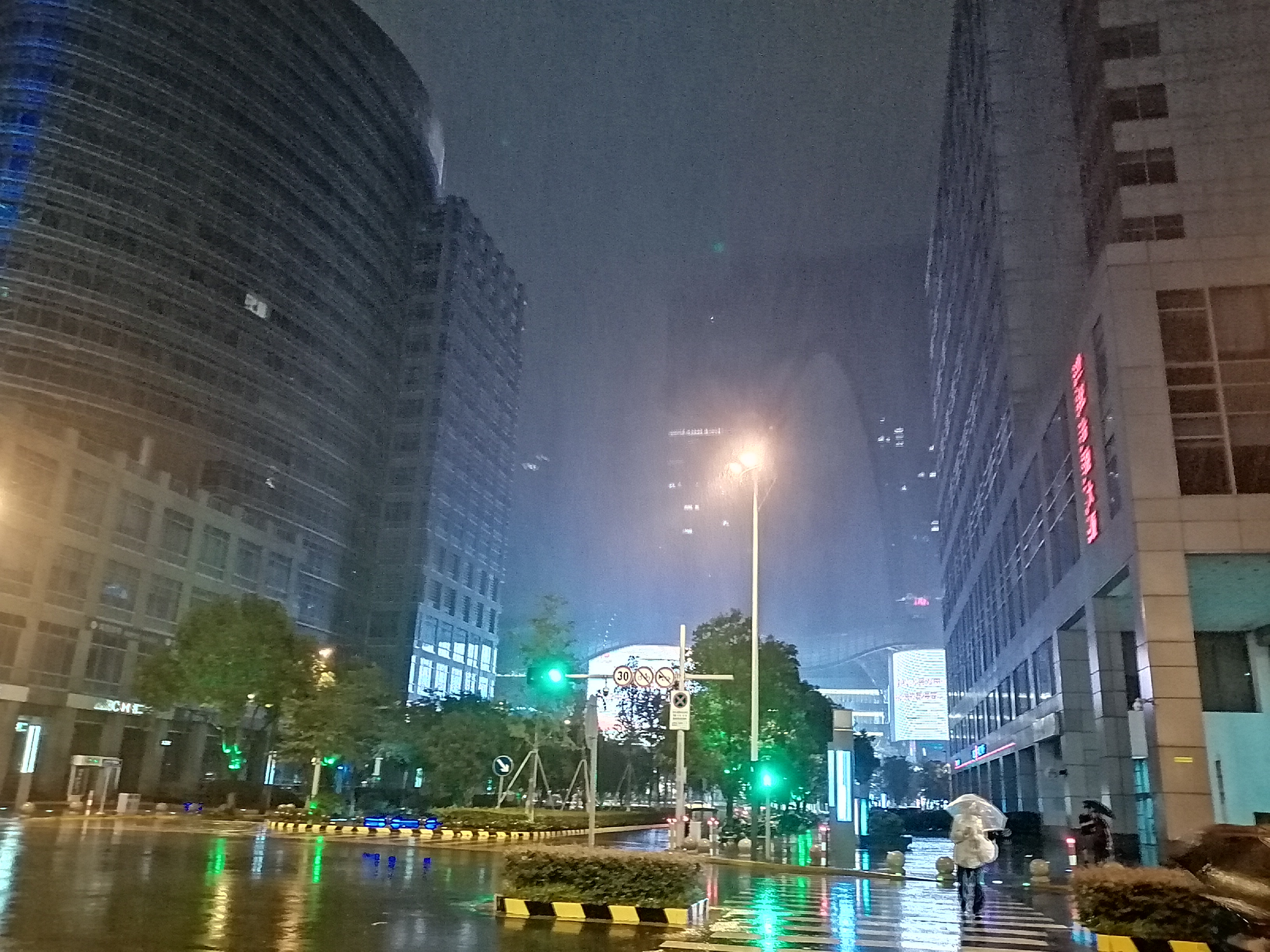 On August 10, 2019, Typhoon Lekima affected in Suzhou. Here is an image shows Suzhou Industrial Park was raining, with gale. 中文（中国大陆）: 2019年8月10日，台风利奇马在苏州受到影响。此图为苏州工业园区出现强降水和大风天气。